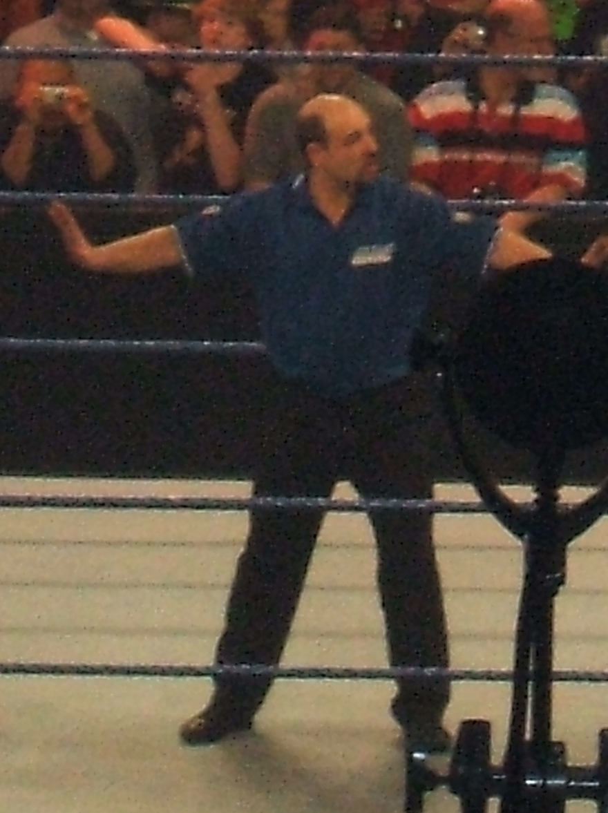 Professional wrestling referee Jim Korderas in the ring in April 2008.